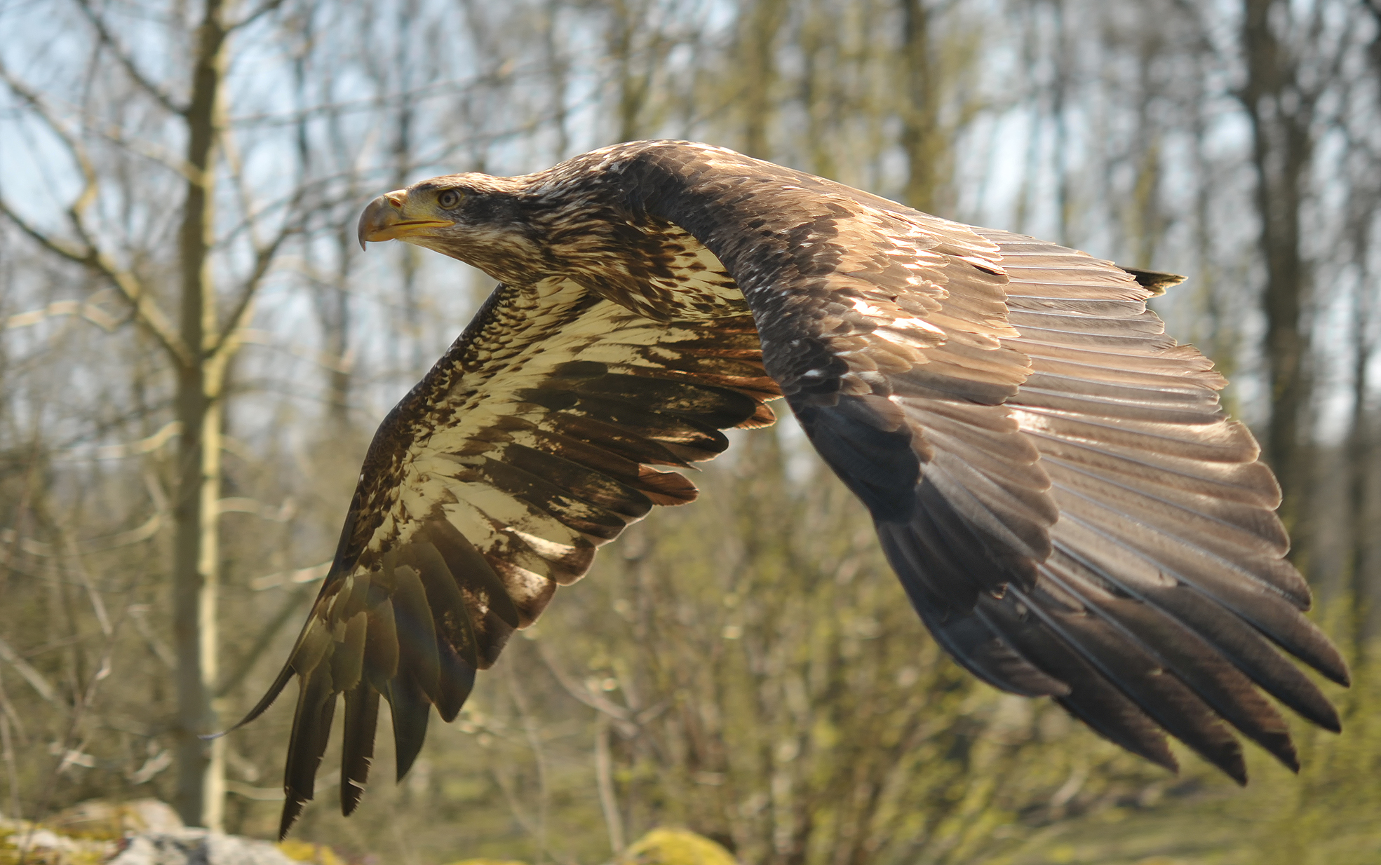 Juvenile Bald Eagle from the Falkenhof in the Wisentgehege Springe game park near Springe, Hanover, Germany